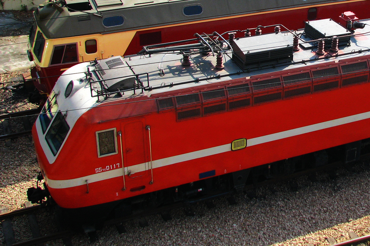 A China Railways SS7E electric locomotive